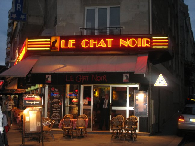 Le Chat Noir at night, photograph taken by Kitty the Random in Paris. June 27 2007.